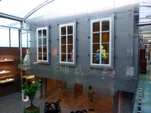 Museum aan het Vrijthof, Maastricht, Netherlands. Interior court yard and TEFAF pavillon.